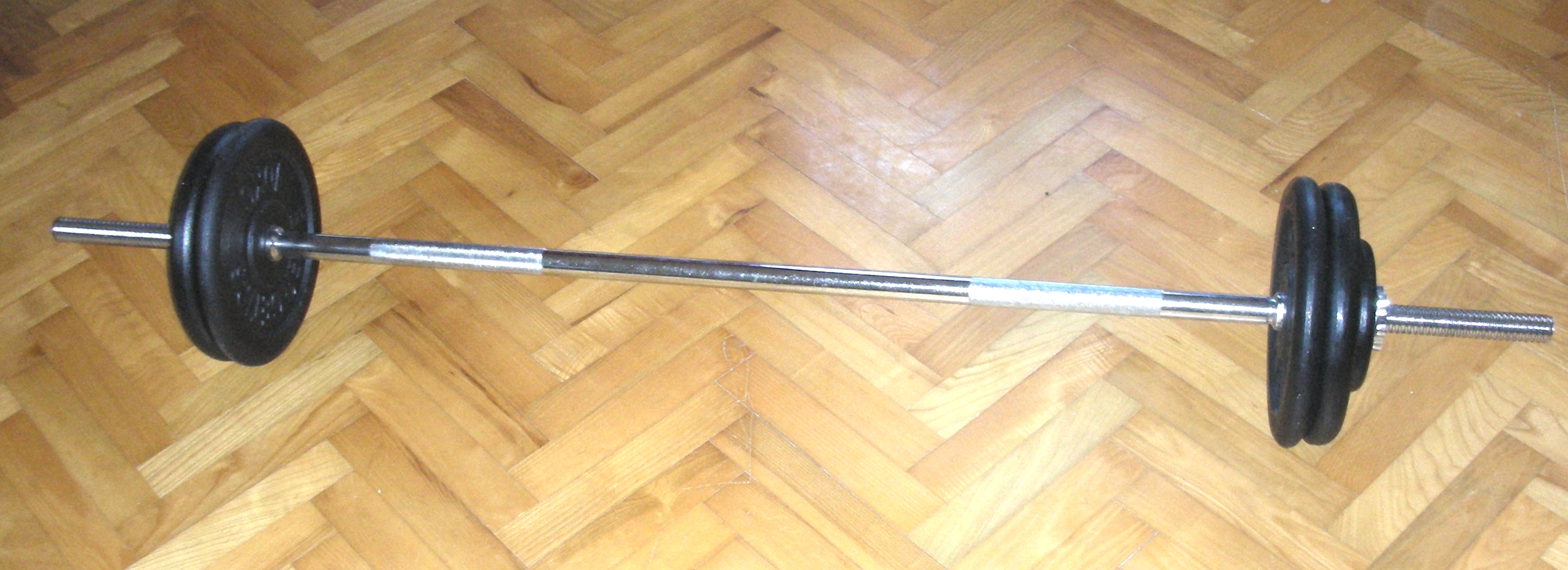 Barbell